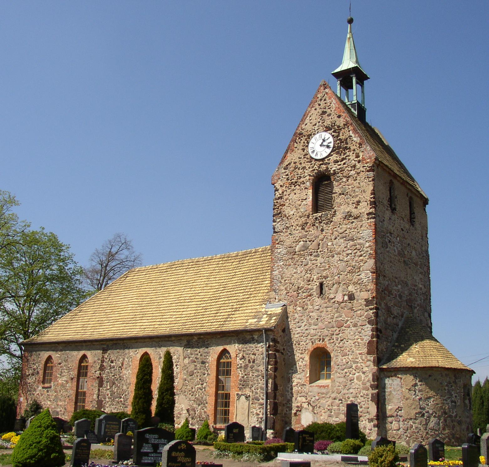 Church in Laußig-Authausen in Saxony, Germany